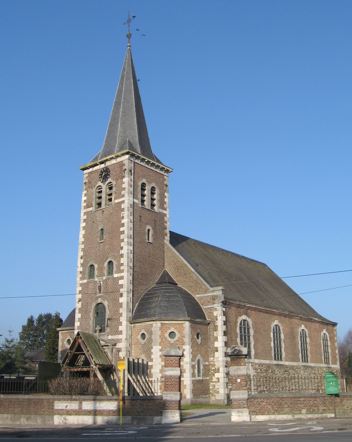 Church of Saint-Lambert in Soumagne, Liège, Belgium